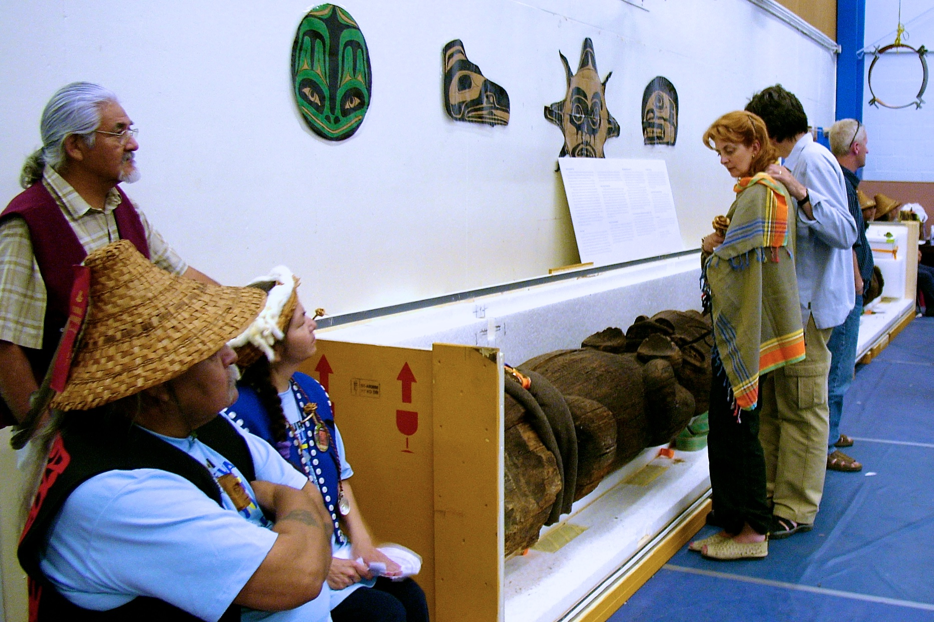 Original G’psgolox pole lying in state back home in Kitamaat Village. Carver Henry Robertson seated.